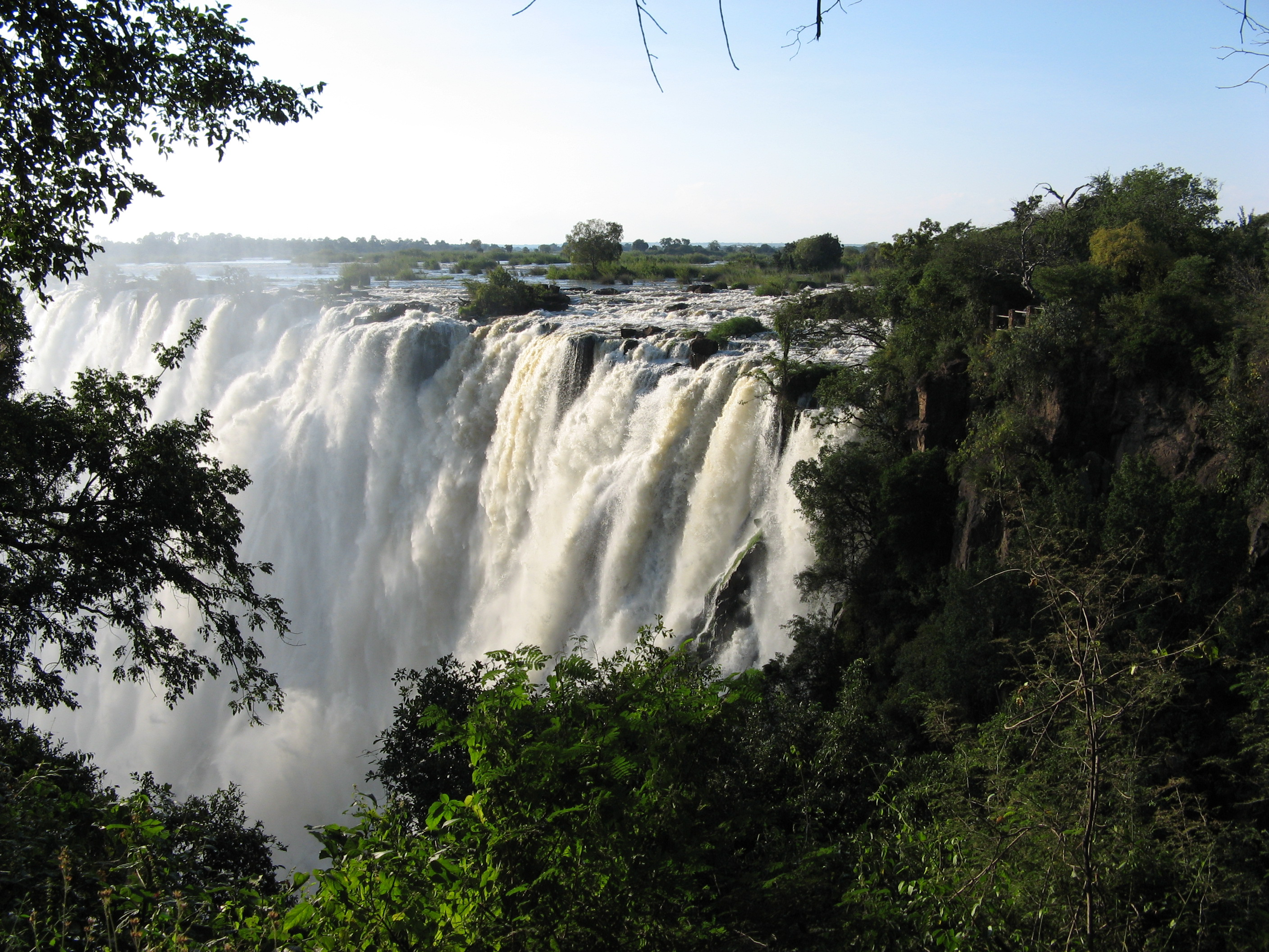 victoria falls